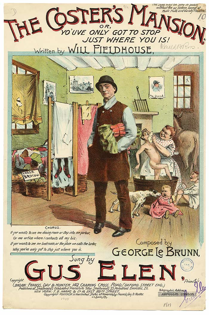 ! Page !! Caption}